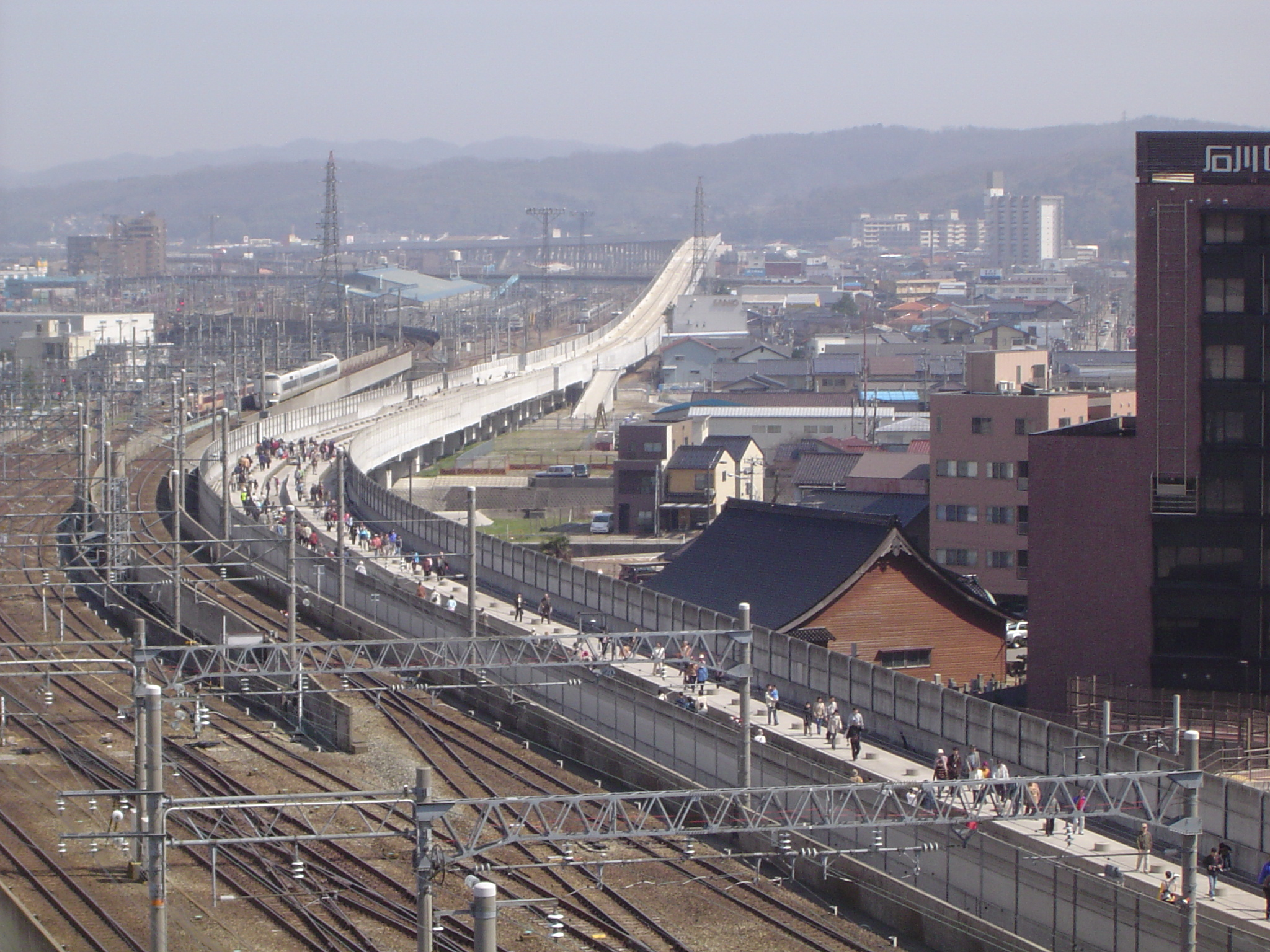 The viaduct of Hokuriku Shinkansen near Kanazawa Station (under construction)